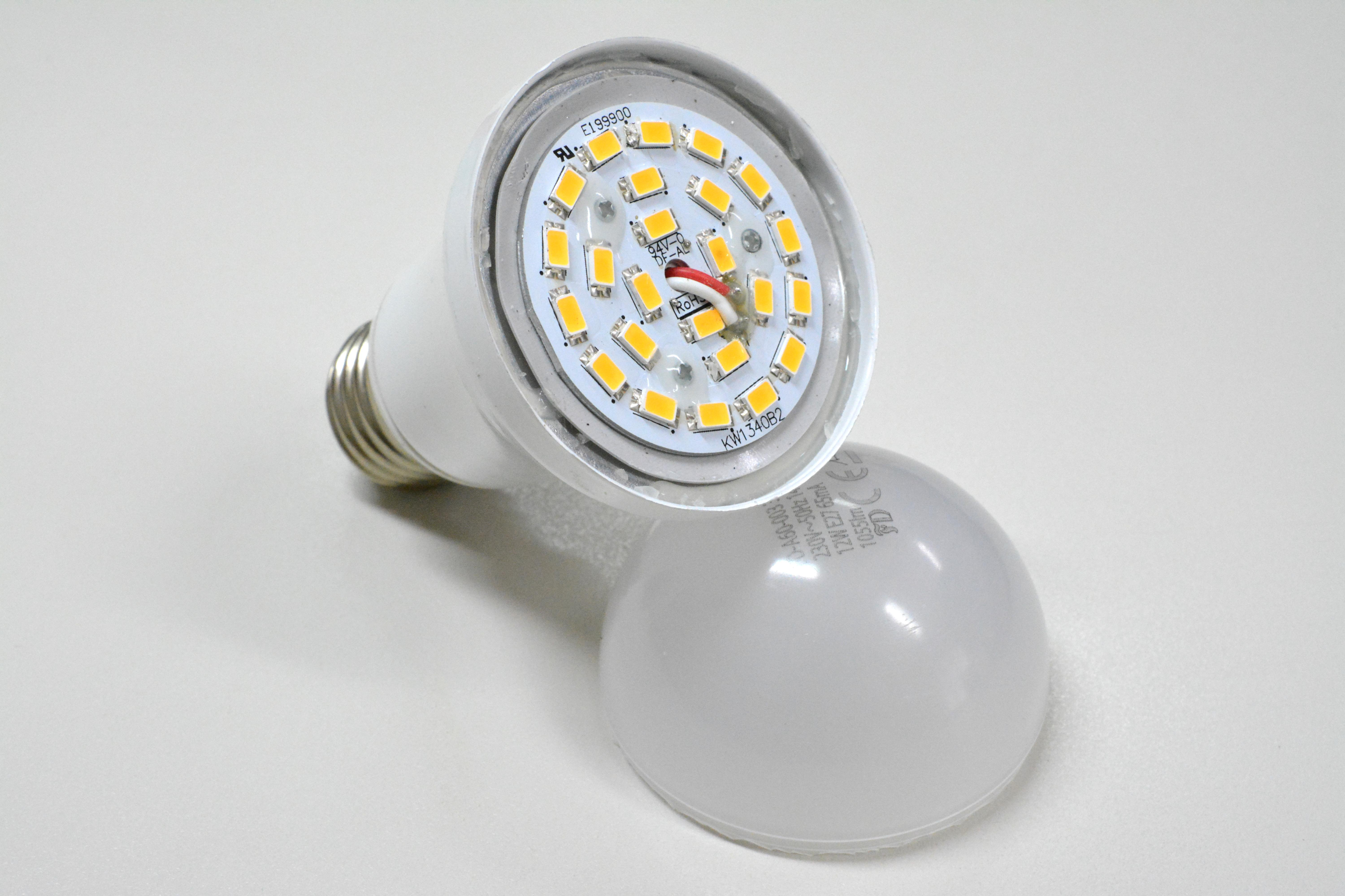 LED Lamp Bulb uncovered, showing the 24 chips. Lamp specifications: - Color Temperature: 3000K - 230 V, 12 W, 65 mA - 1055 lumen